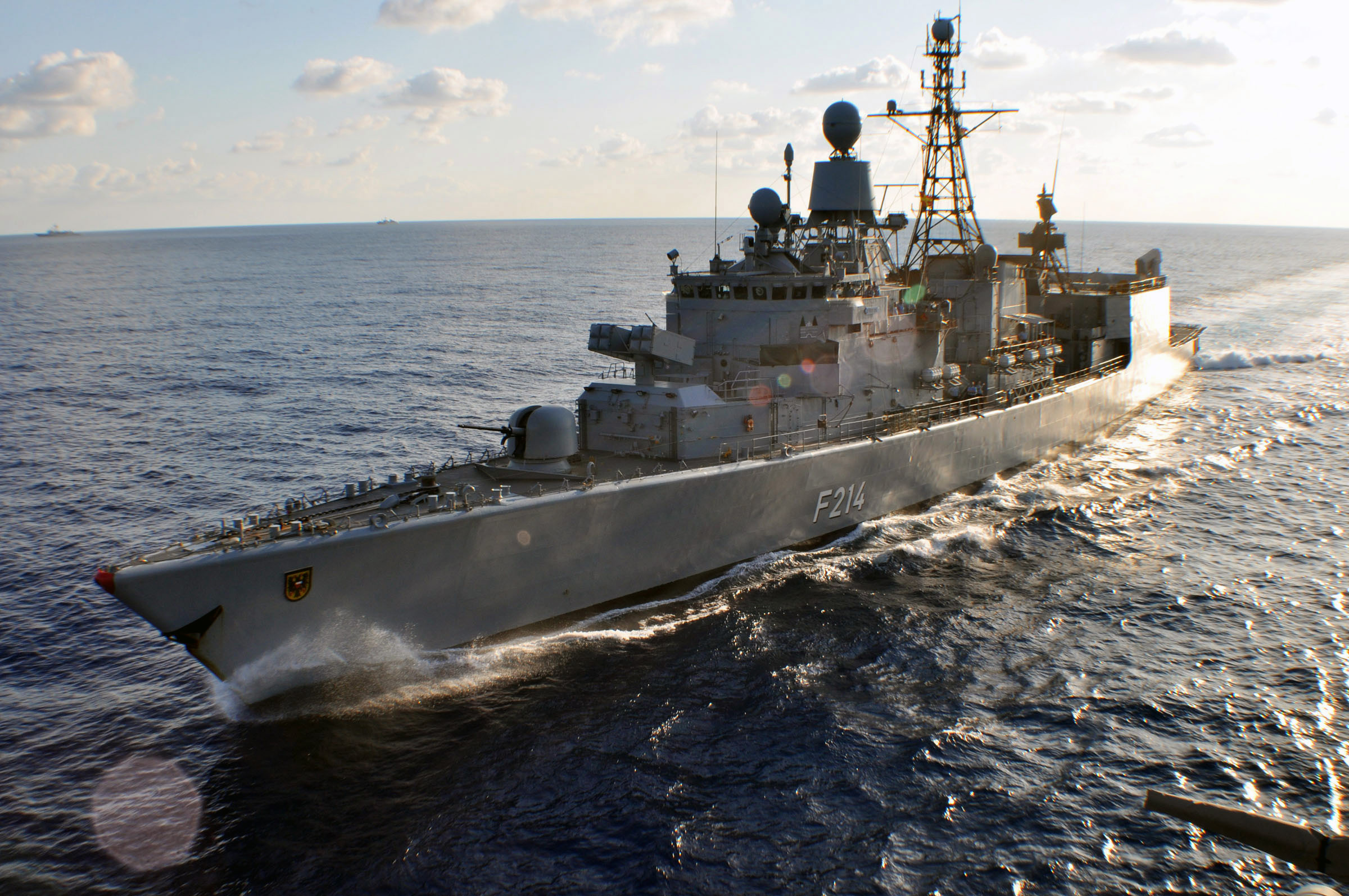 The German frigate Lübeck (F214) transits the Atlantic Ocean during exercise "UNITAS Gold" on 25 April 2009.